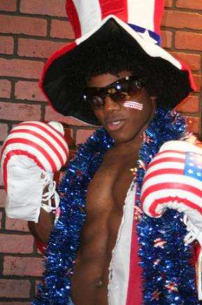 New picture of Austin Creed. Permission was given to me from Mr. Creed himself.